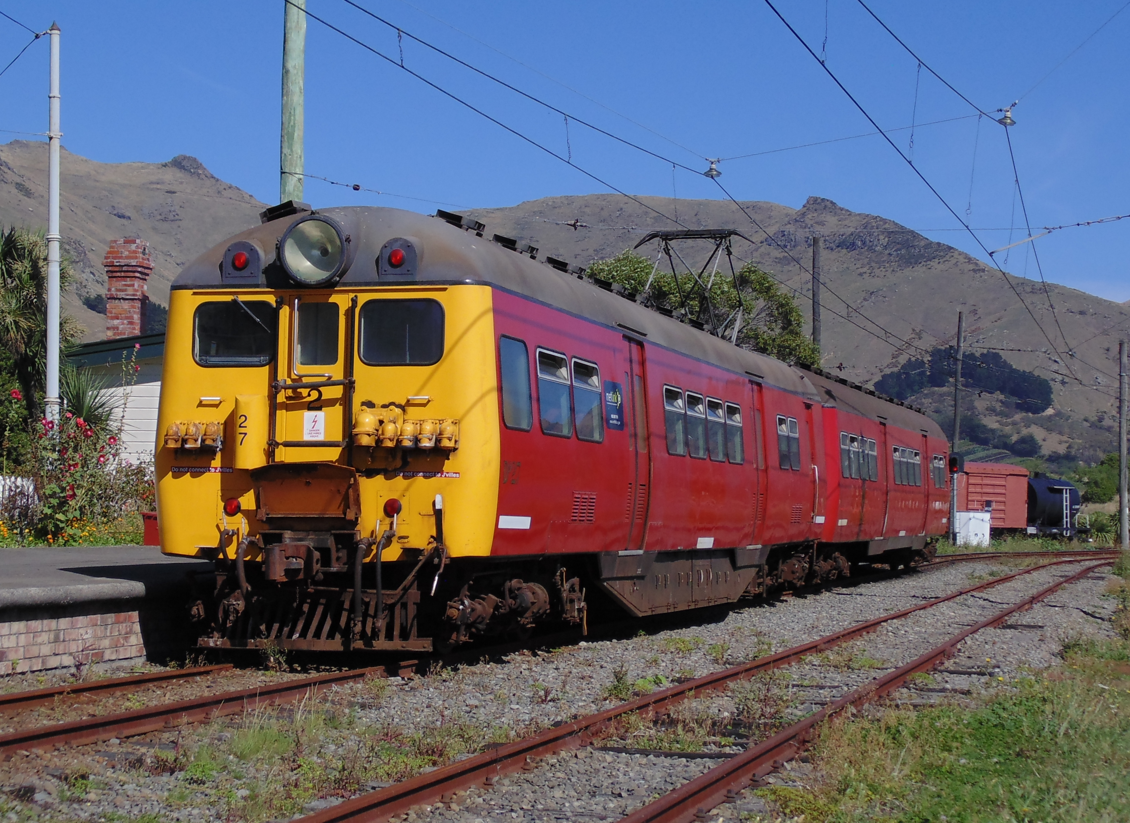 TrainboyMBH